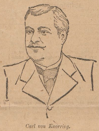 Engraving of the Finnish singer Carl von Knorring (1861-1931), by an anonymous artist. Published in Svenska Dagbladet 1902-03-30 (84), p. 7.